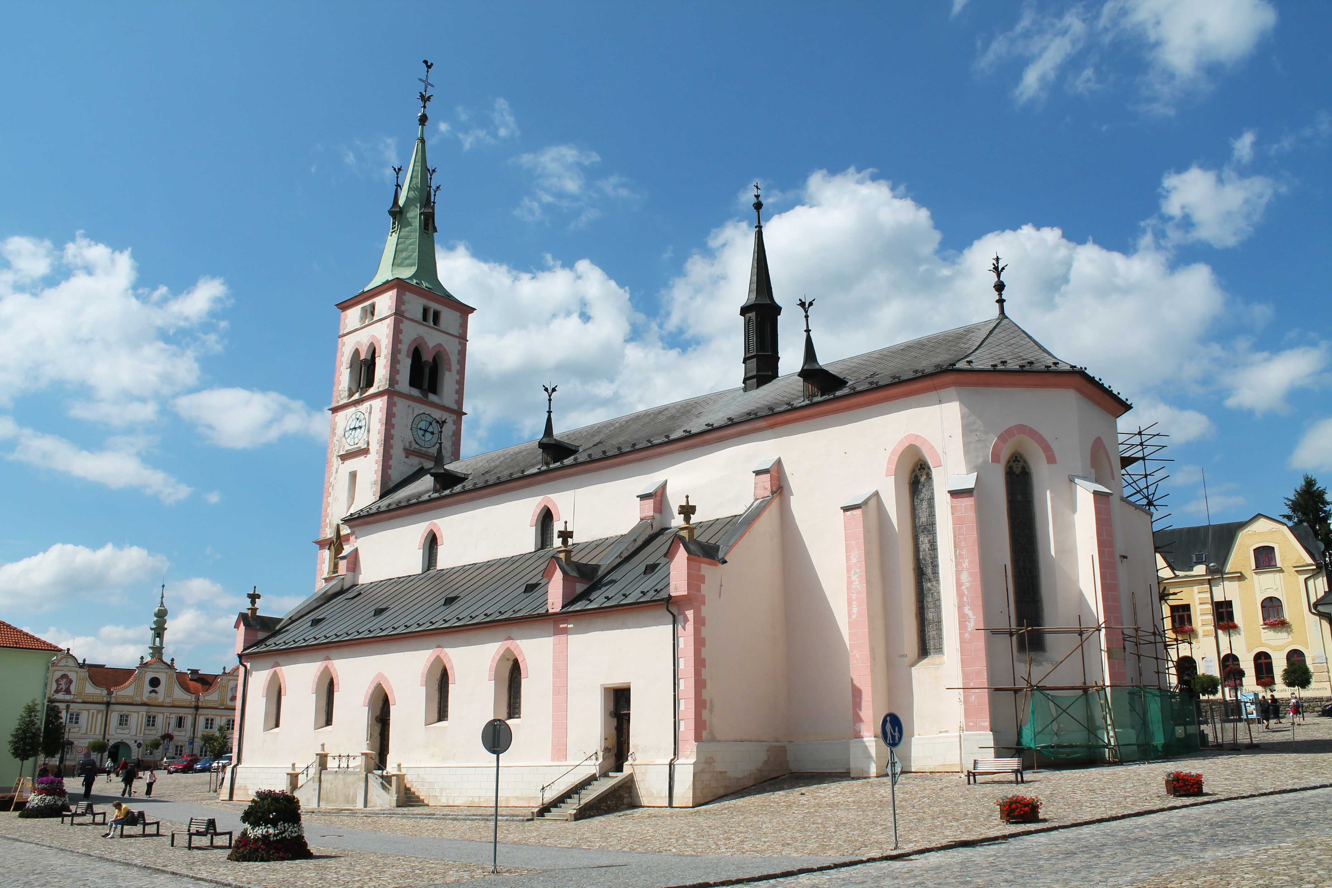 Church of Saint Margaret, Kašperské Hory, Klatovy District, Czech Republic